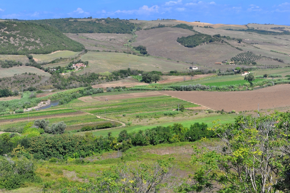 View onto River Marta in Tarquinia